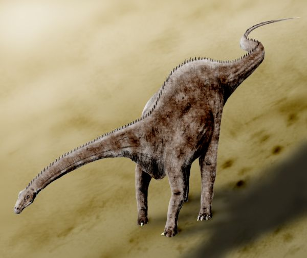 Diplodocus carnegiei, the well known sauropod from the Late Jurassic of North America.